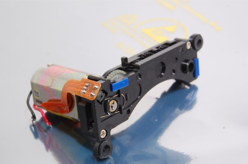 This is the motor in the front bottom of a Nikon D70 or D70s that focuses external AF lenses. the little rotating pin that drives older-style AF lenses is drive by this motor!